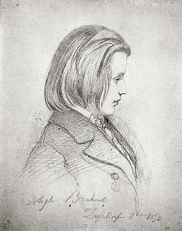 Pencil drawing by Laurens of Johannes Brahms at the age of 20, drawn at the request of Robert Schumann in Düsseldorf (Bibliotheque Inguimbertine, Carpentras, France)